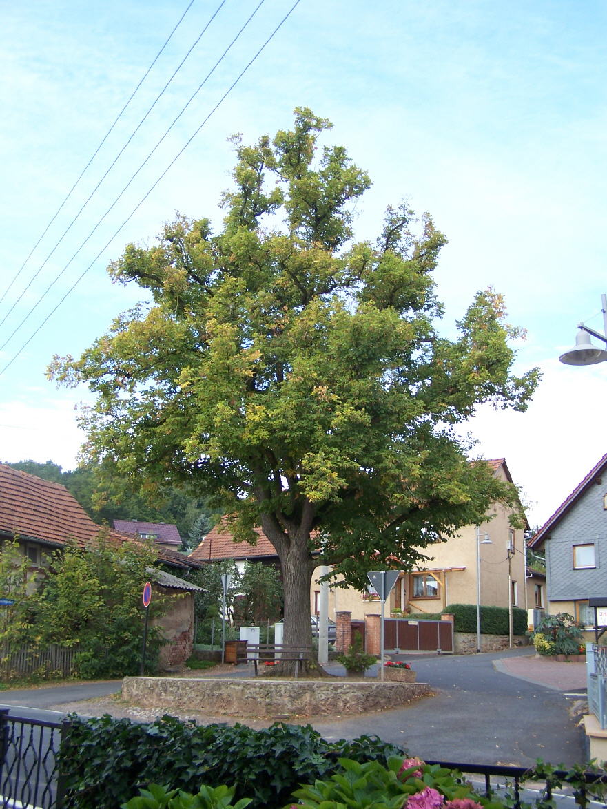 The village green of Unkeroda.